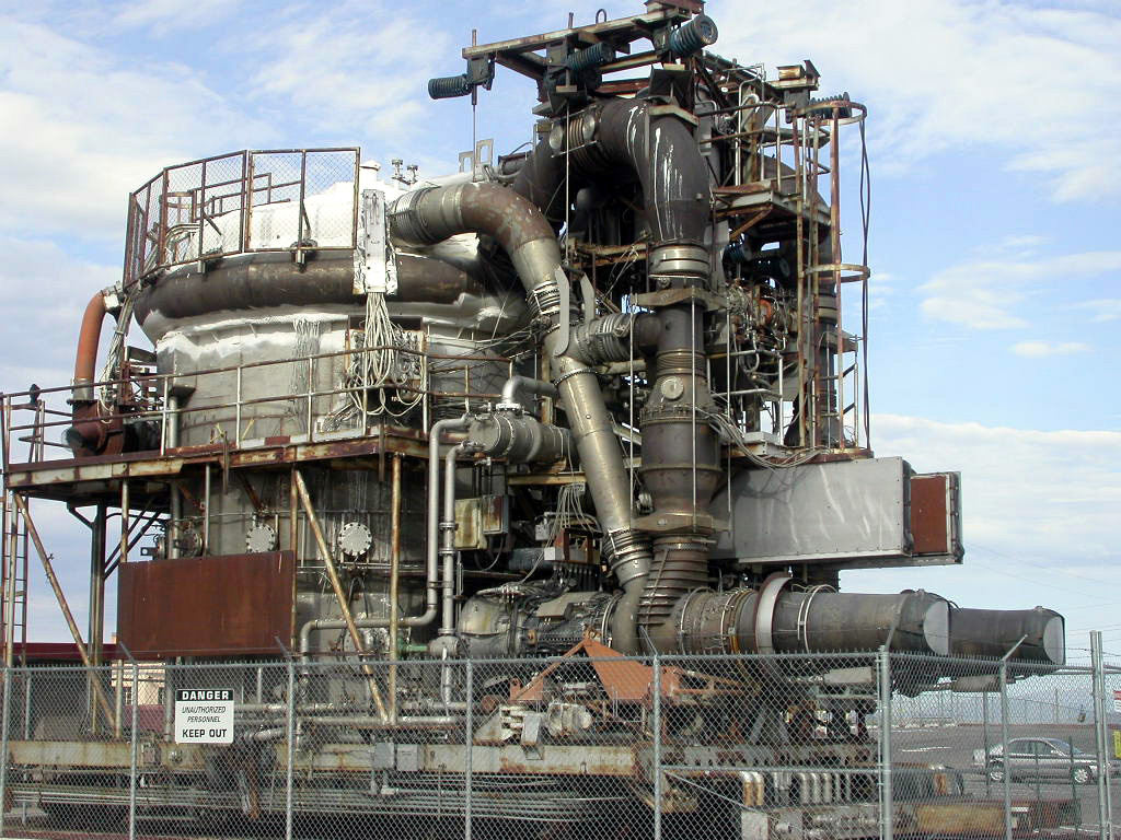 Prototype nuclear engine for nuclear powered bomber. This project provided key innovations to miniaturize nuclear reactors, making nuclear powered submarines possible. Photographed at Argonne West an INL facility. Therobotbuilder 00:32, 8 September 2006 (UTC)